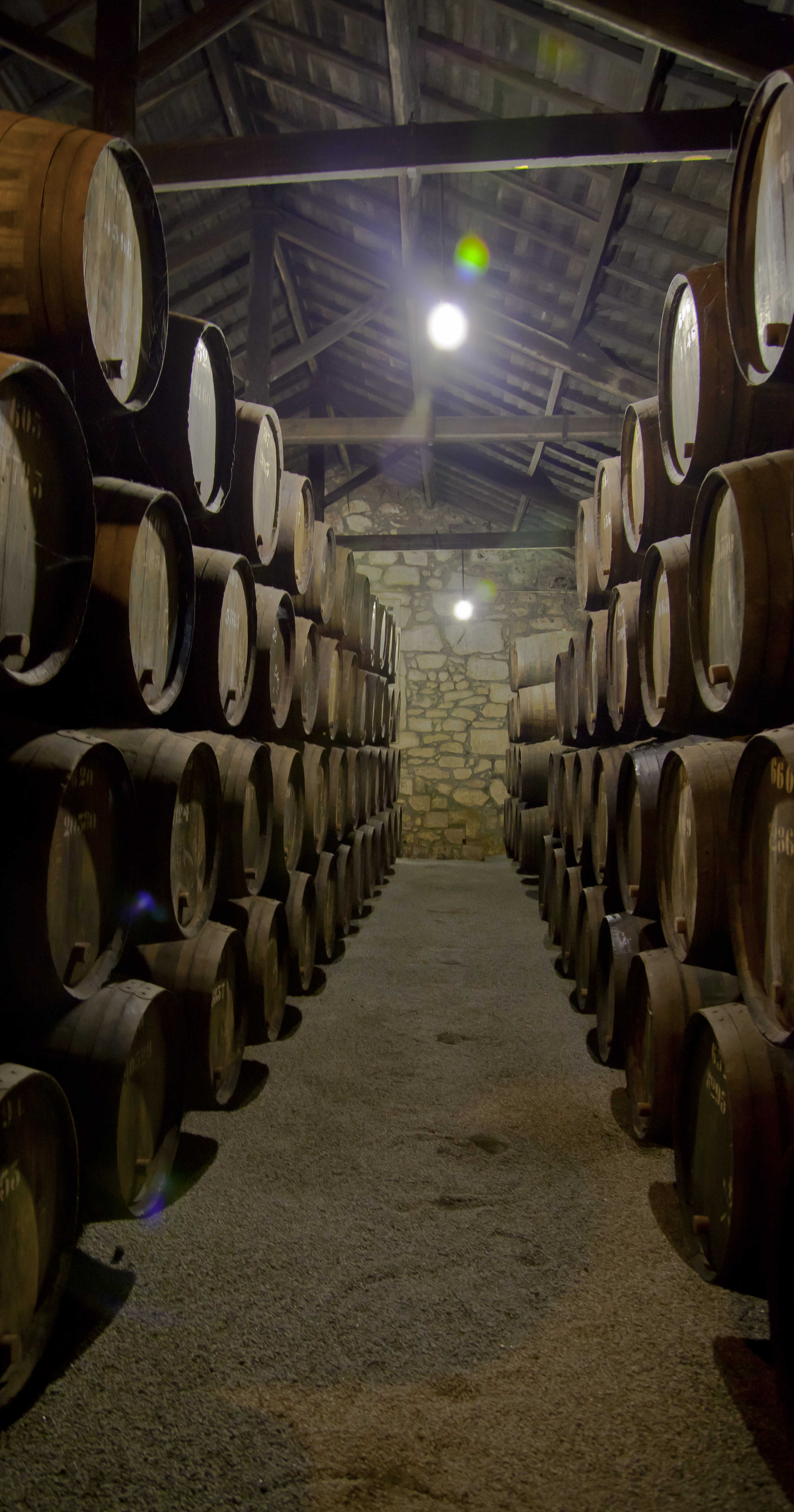 Croft wine cellar, Vila Nova de Gaia, Portugal